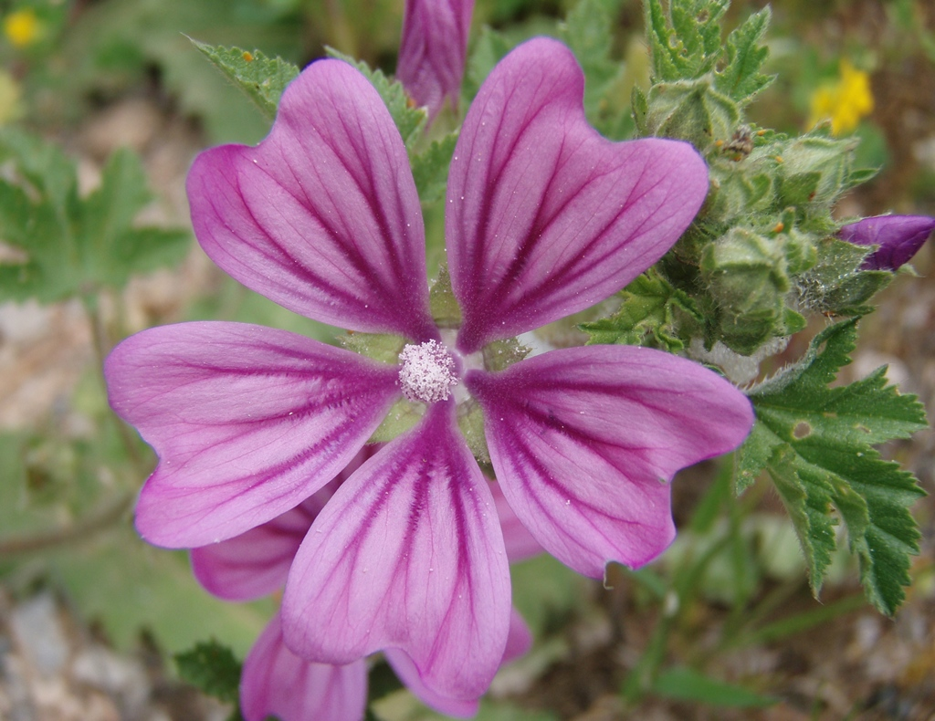 Malva sylvestris(Common Mallow)